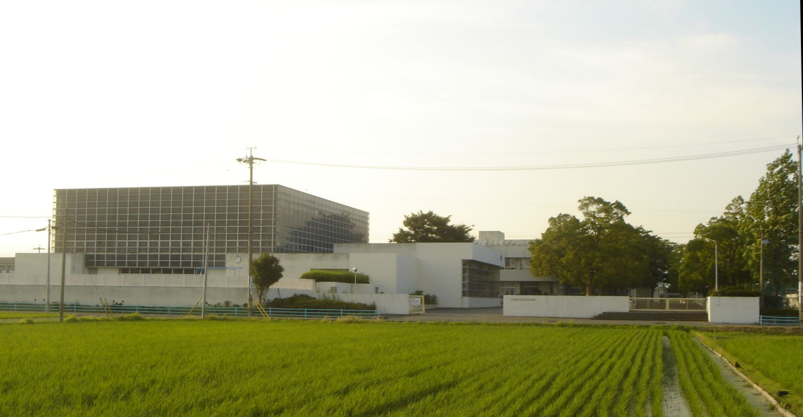 Seiwa Junior High School in Ogaki